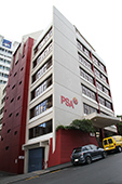 PSA House in Wellington